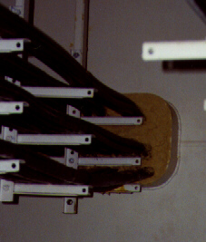 German Marine Firestop "Kaltvergussmasse", meaning an inorganic powdered substance, mixed with water to turn into a solid.